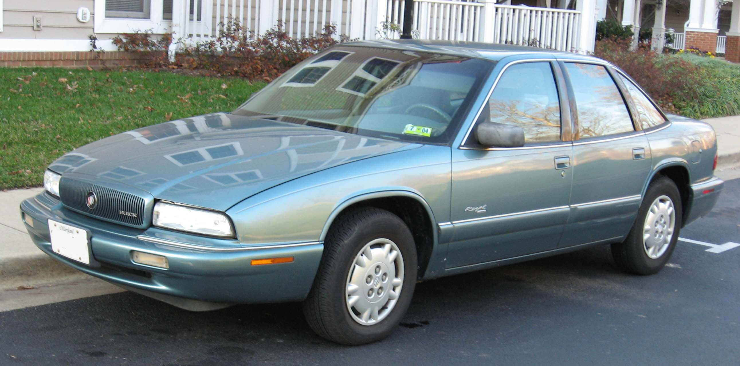 1995-1996 Buick Regal photographed in USA.